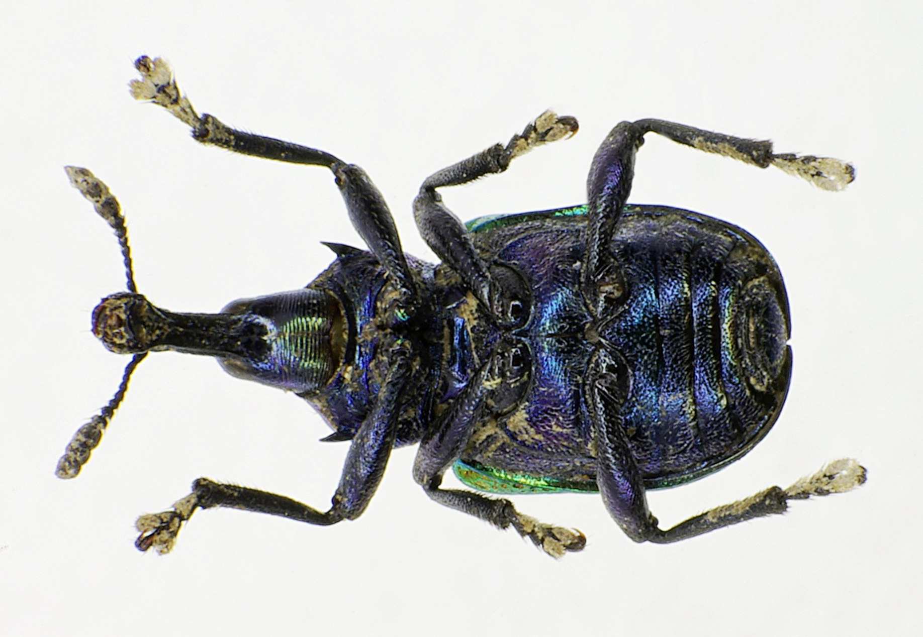 Byctiscus populi male from collection, underside